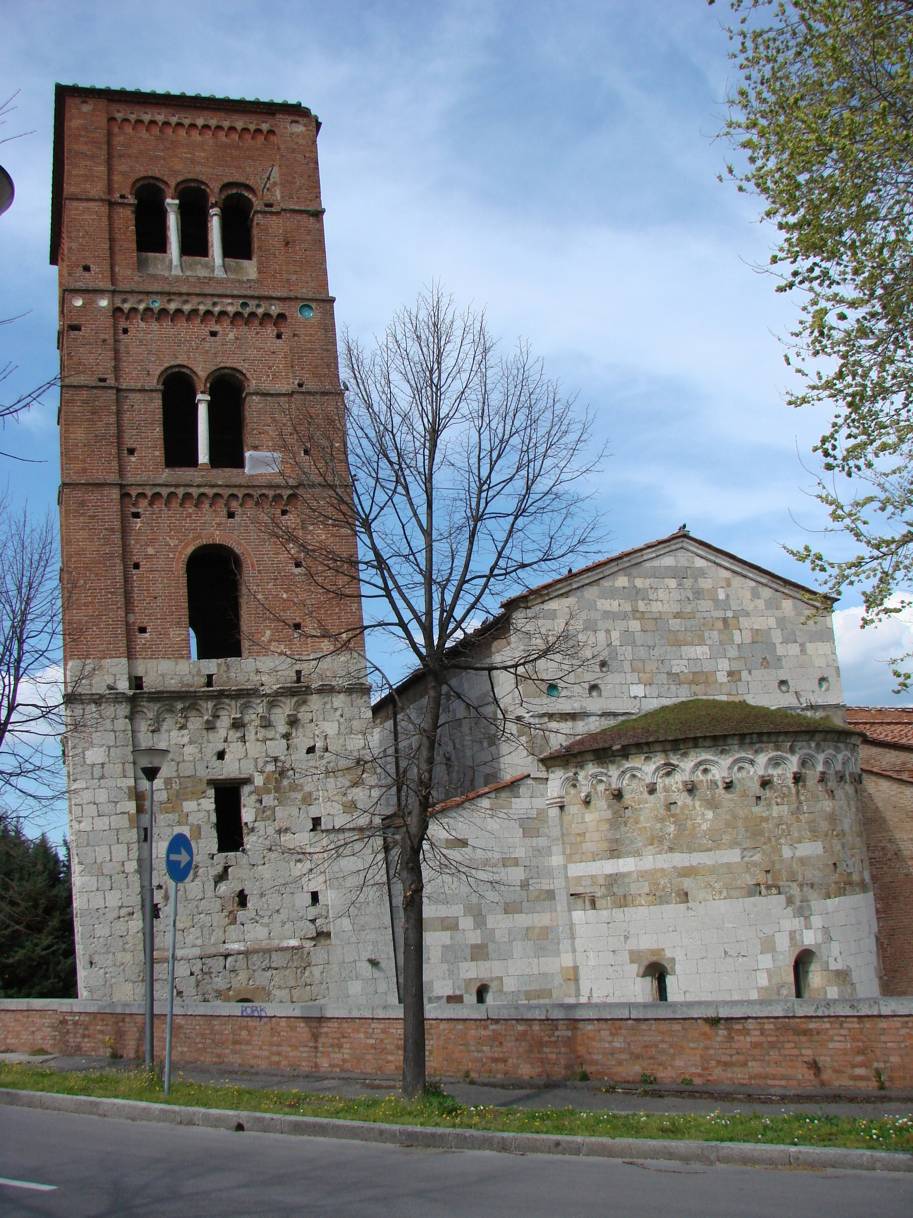 Church of San Michele degli Scalzi in Pisa - Apse and (leaning) bell-tower